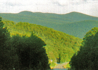 Photographed by Daniel Case sometime in August 2000. Print scanned 2006-12-29